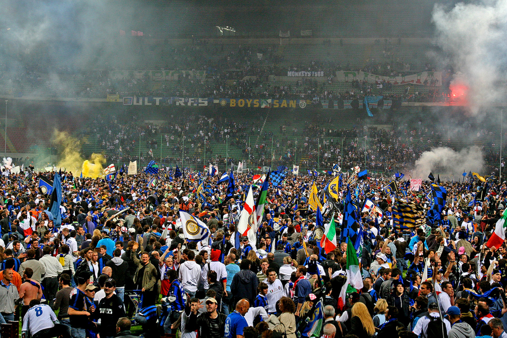 18 May 2008: San-Siro. Inter fans celebrate winning the Italian championship in 2008